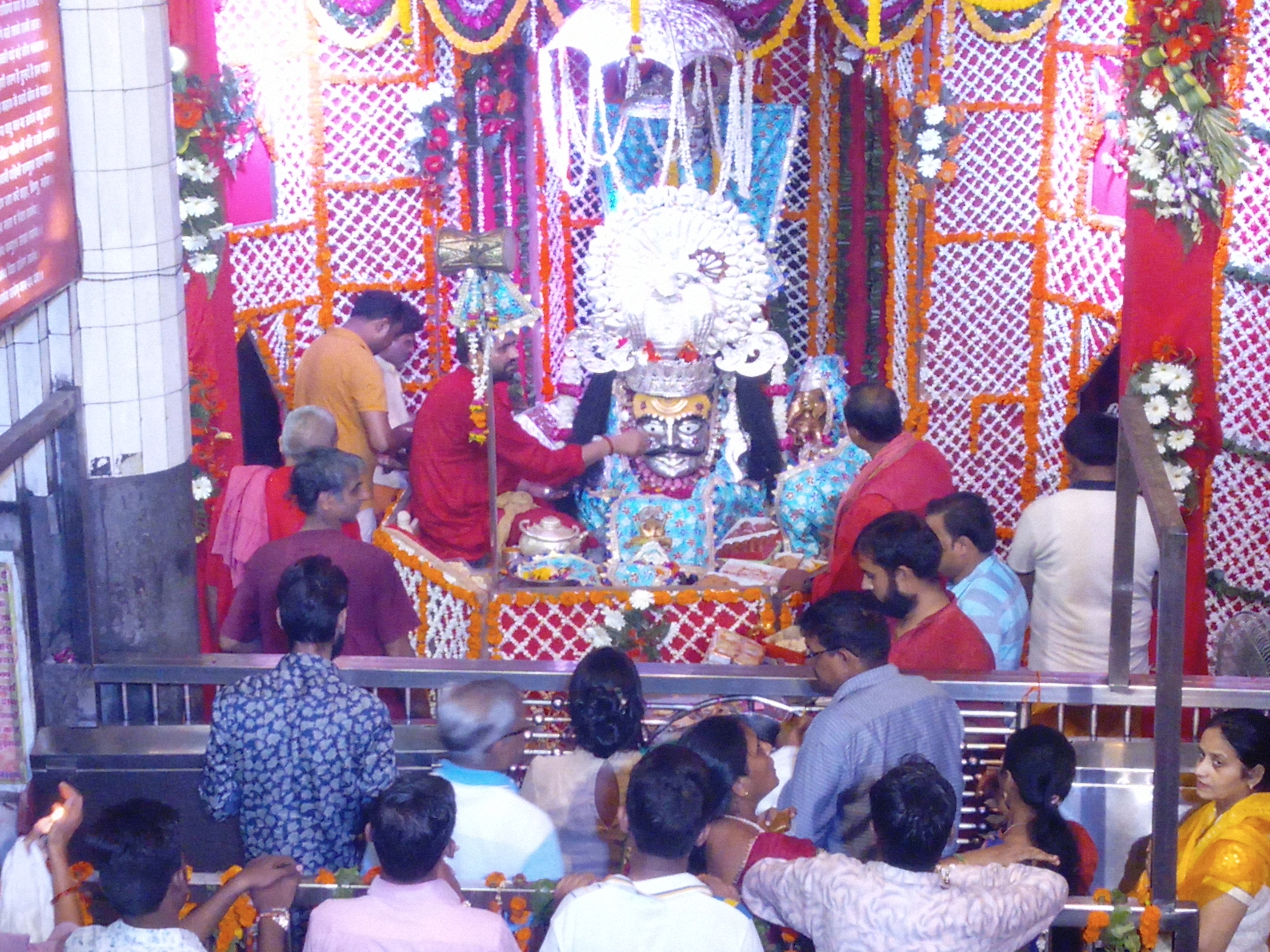 Shri Mankameshwar Temple in Agra is a sacred Hindu temple near the Agra Fort Railway Station, it is heavily crowded on Mondays and Lord Shiva festive days